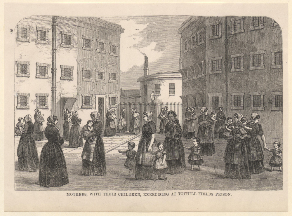 Wood engraving showing mothers, with their children, exercising at Tothill Fields Bridewell (prison), London. Shelfmark: Crime 9 (64)